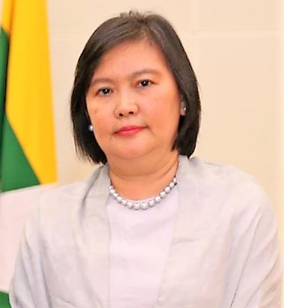 Daw Ei Ei Khin Aye, ambassador of Myanmar to East Timor